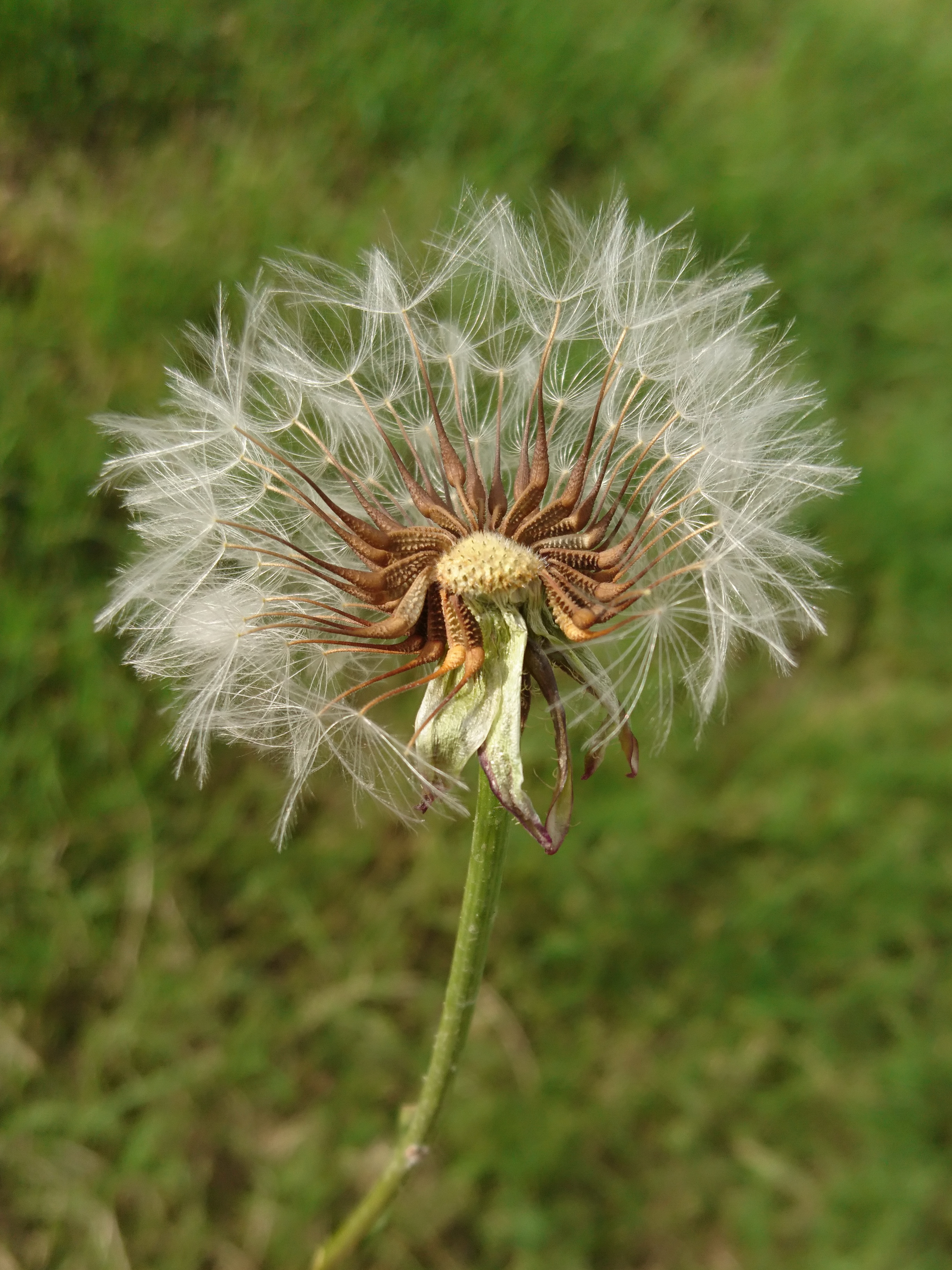 Dandelion in Iran